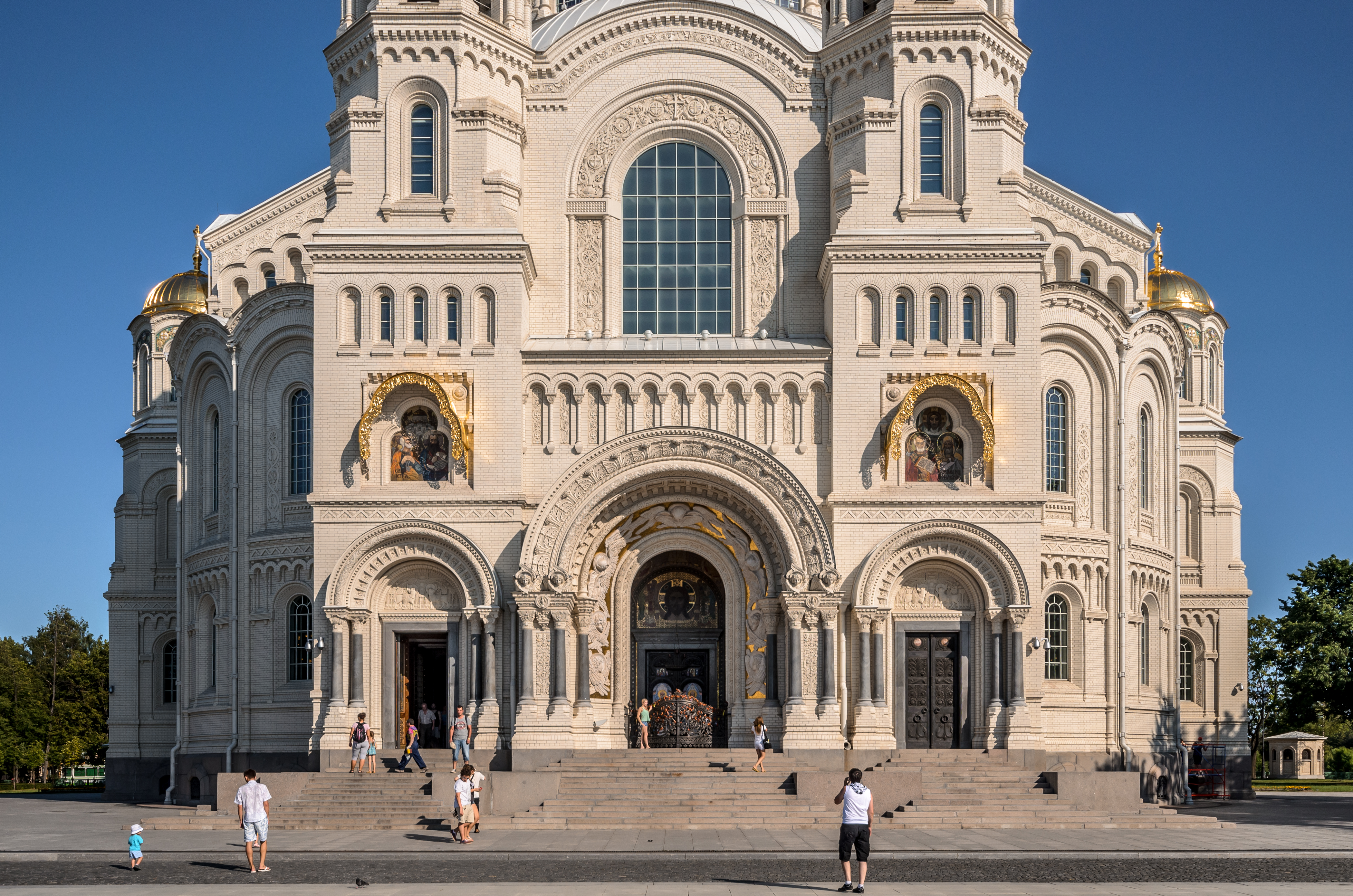 Naval Cathedral of Saint Nicholas in Kronstadt